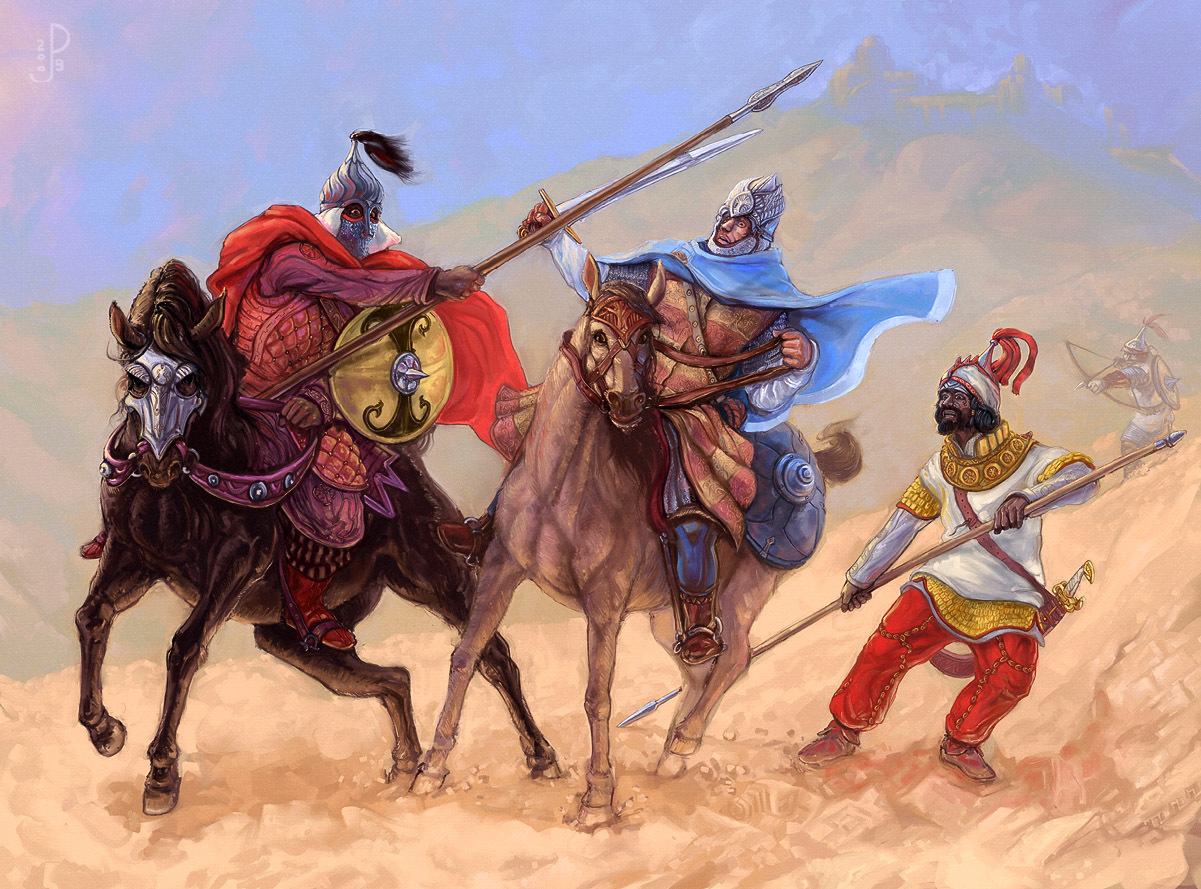 An ambush in Harondor : a Gondorian rider is attacked by three Haradrim.